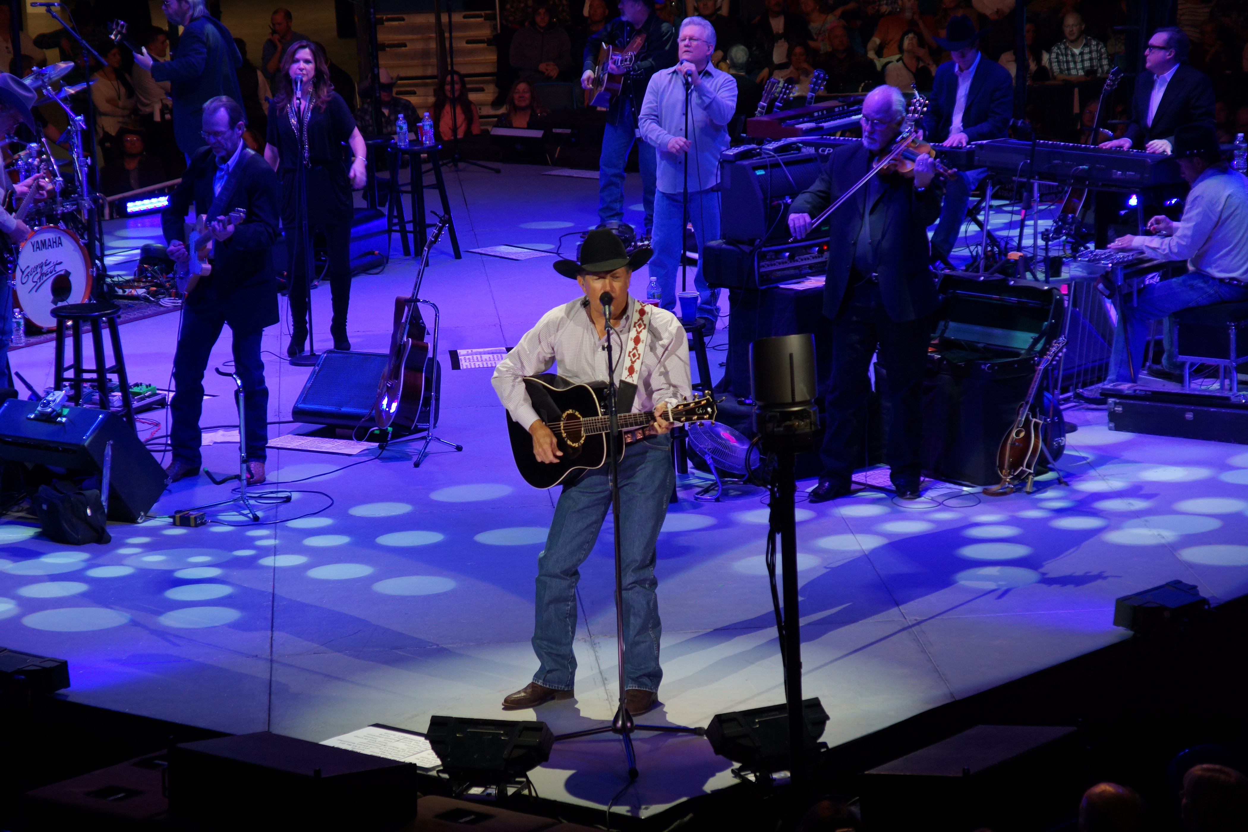 George Strait with the Ace in the Hole Band on The Cowboy Rides Away Tour at the XL Center, Hartford, Connecticut, February 23, 2013